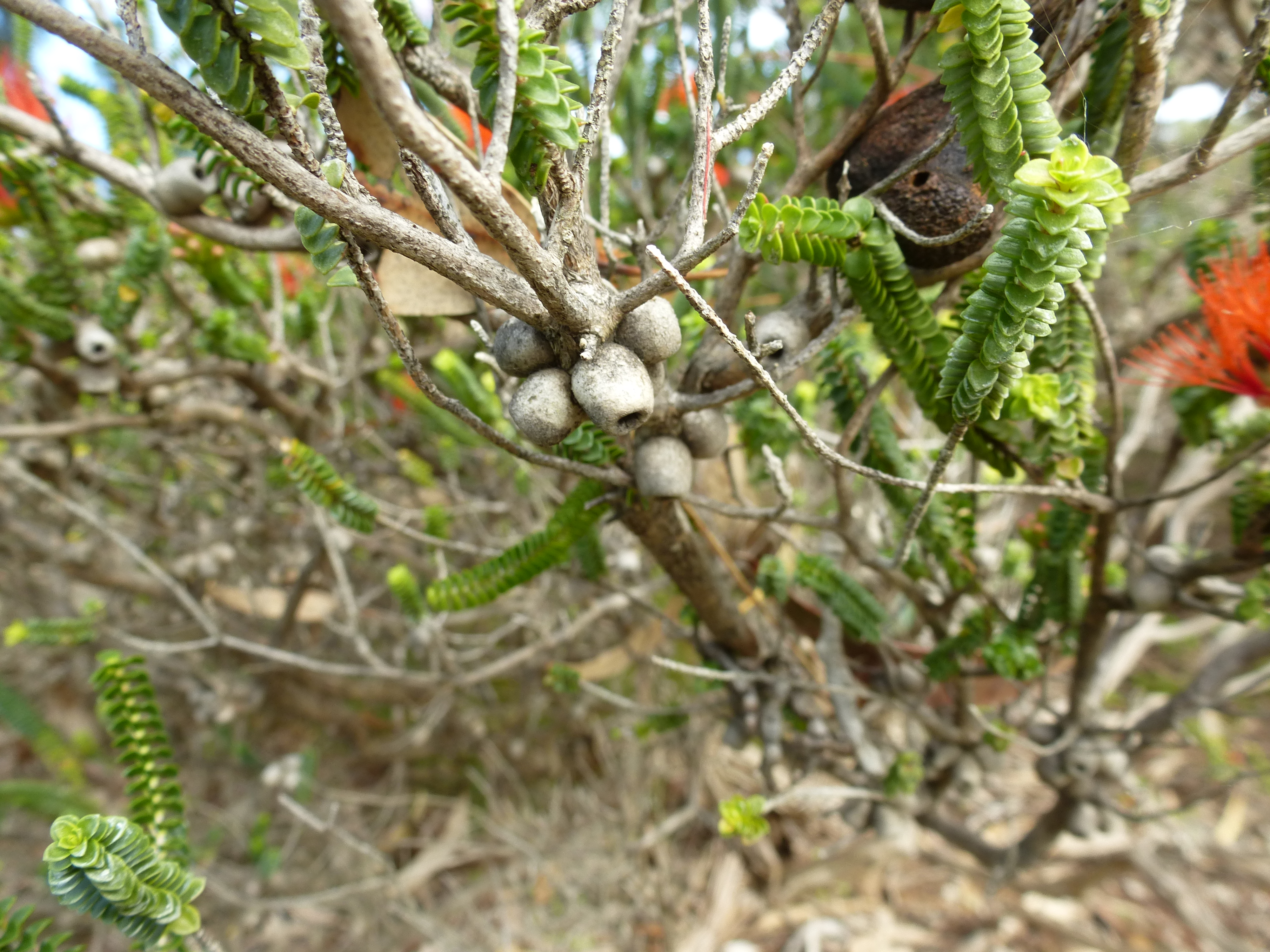 Beaufortia squarrosa growing in Kings Park